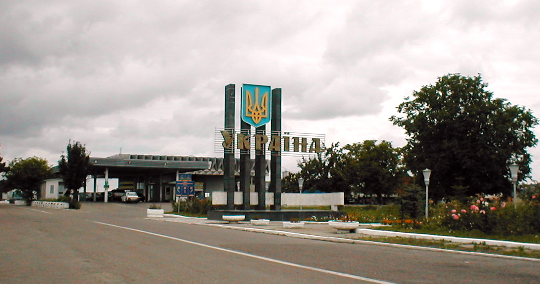 Description: Ukrainian border between Siret/Romania and Porubne/Ukraine on route E 85 Source: self-made 07-24-2005 Photographer/Painter: Stefan Richter